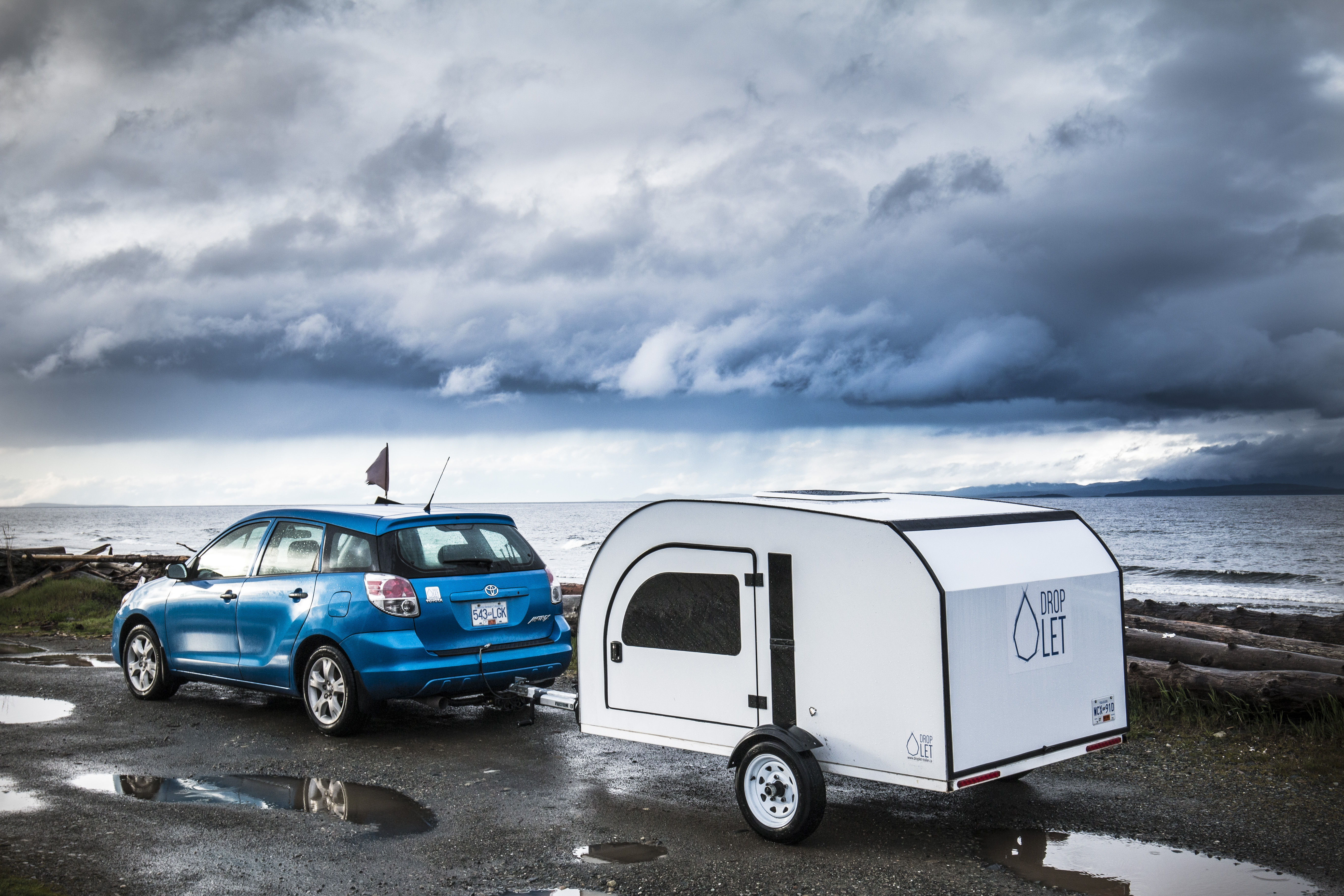 Lightweight Teardrop Trailer on Vancouver Island